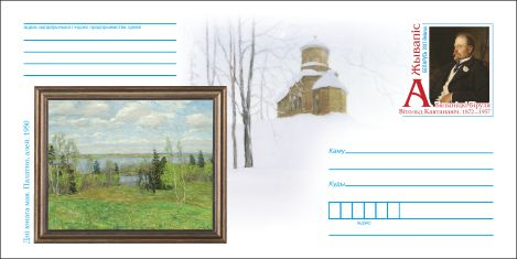 Painting. Bialynicki-Birulia Vitoĺd Kajatanavič.